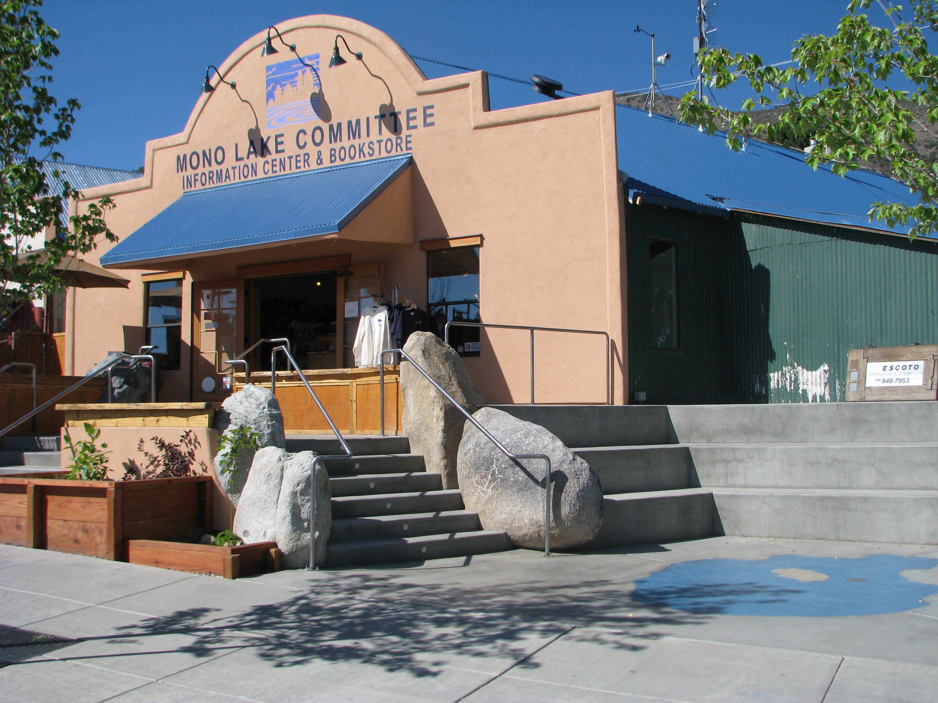 Remodelled Mono Lake Committee Information Center & Bookstore in Lee Vining, California, USA, as of August 2012